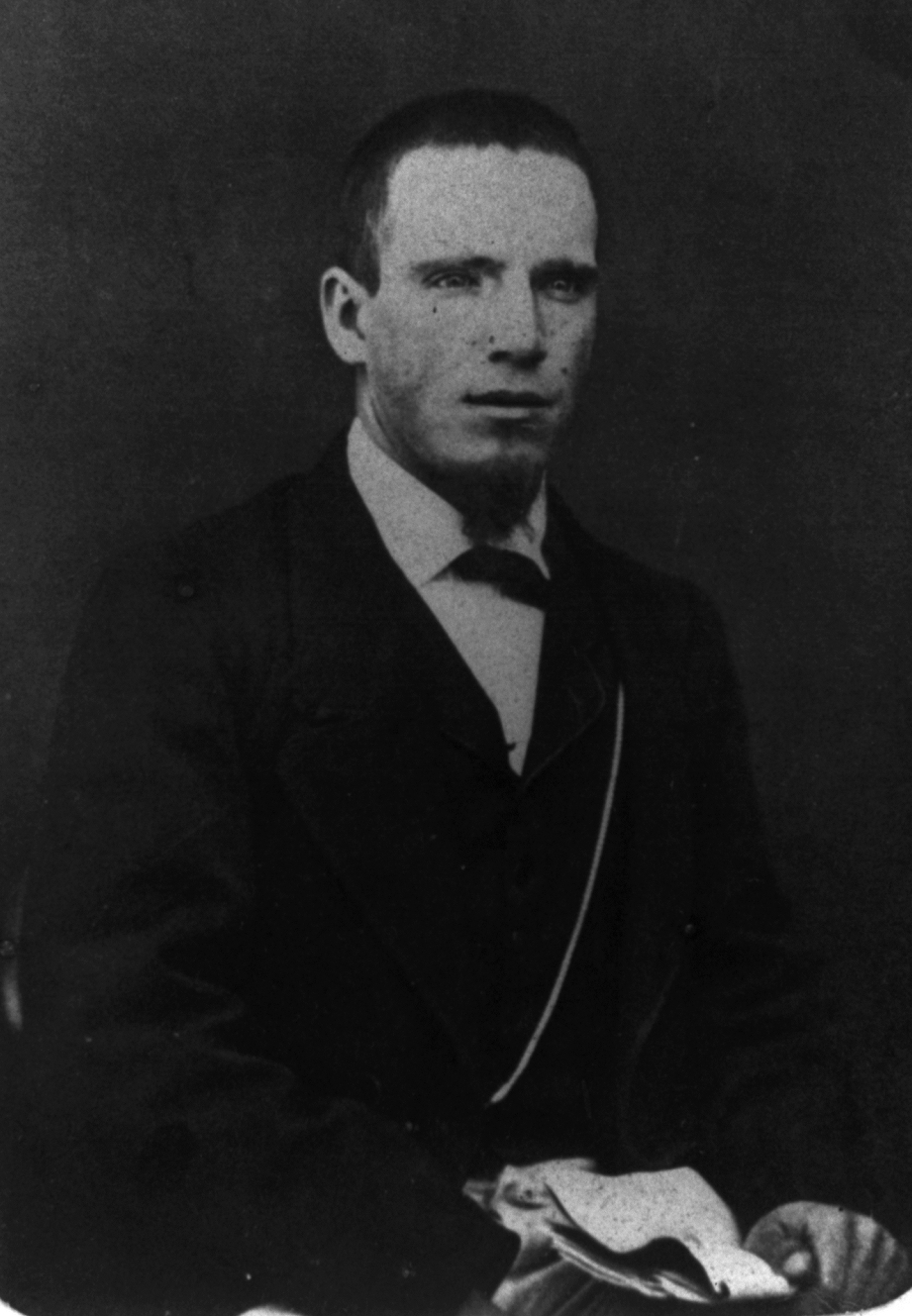 Leandro Valle (1833 – 1861) Mexican liberal general, half-length portrait, seated, facing front.